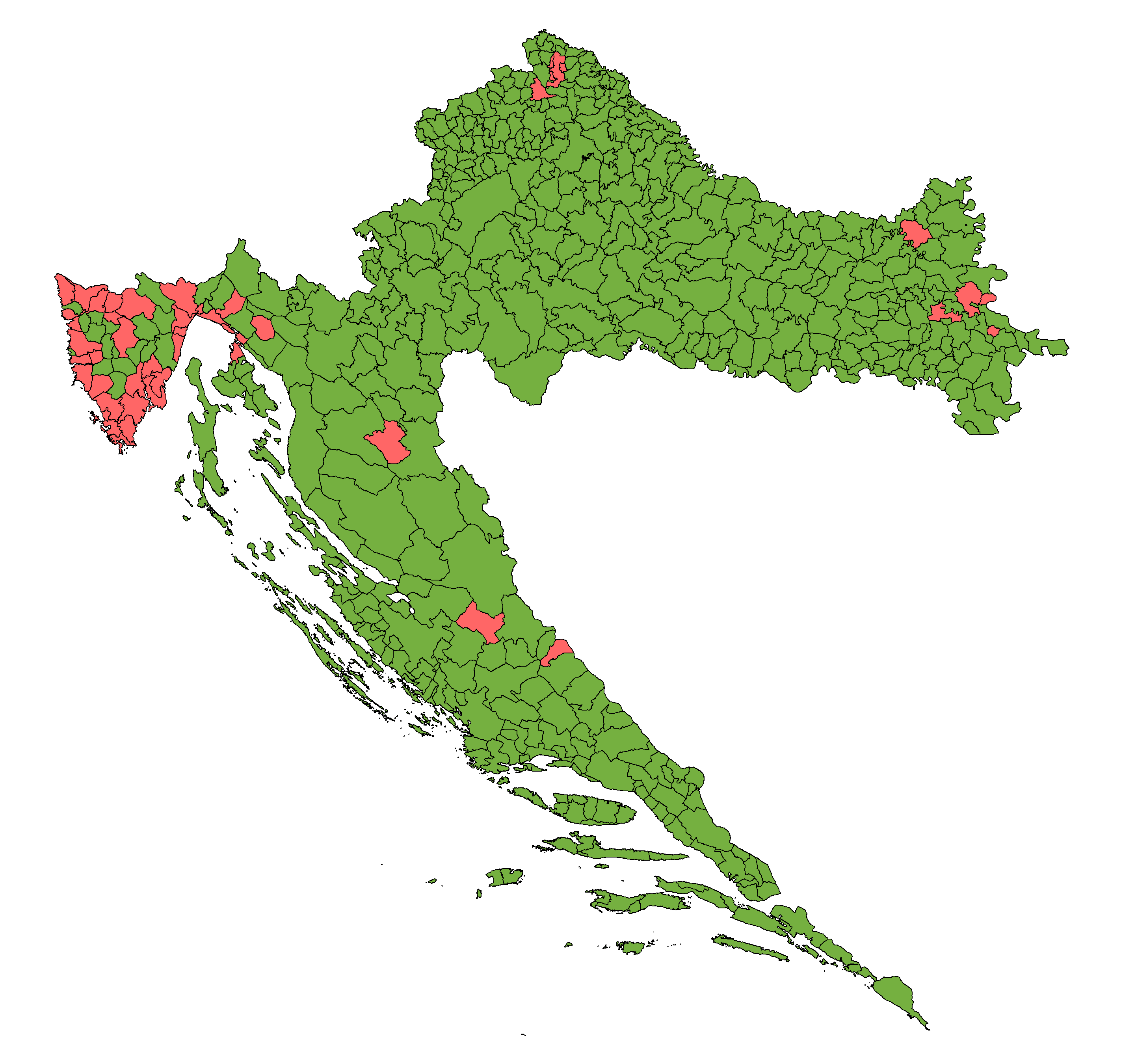 Results of the Croatian constitutional referendum in 2013, showing the option that received the majority of votes in each municipality.